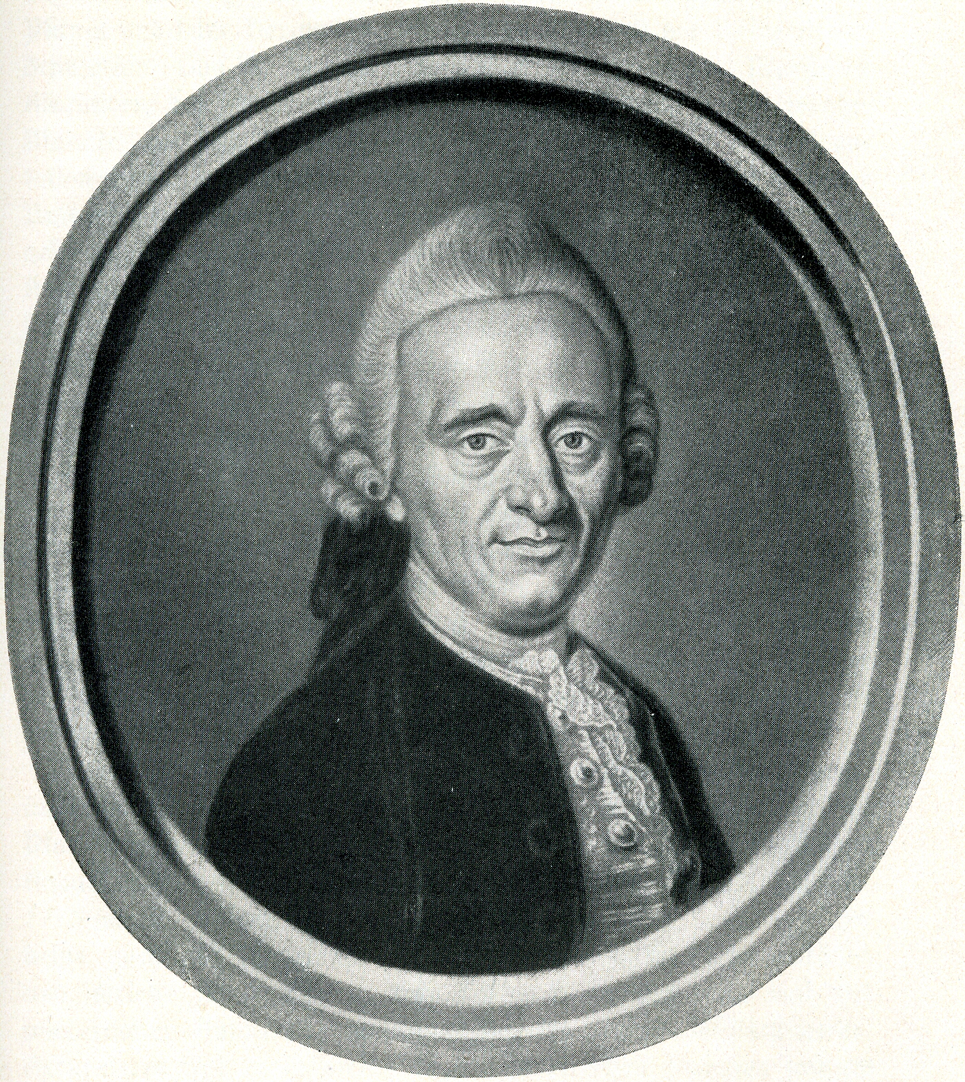 Gottlieb Christoph Harleß (1738-1815), Professor for Classical philology at the University of Erlangen-Nuremberg from 1777 until his death.